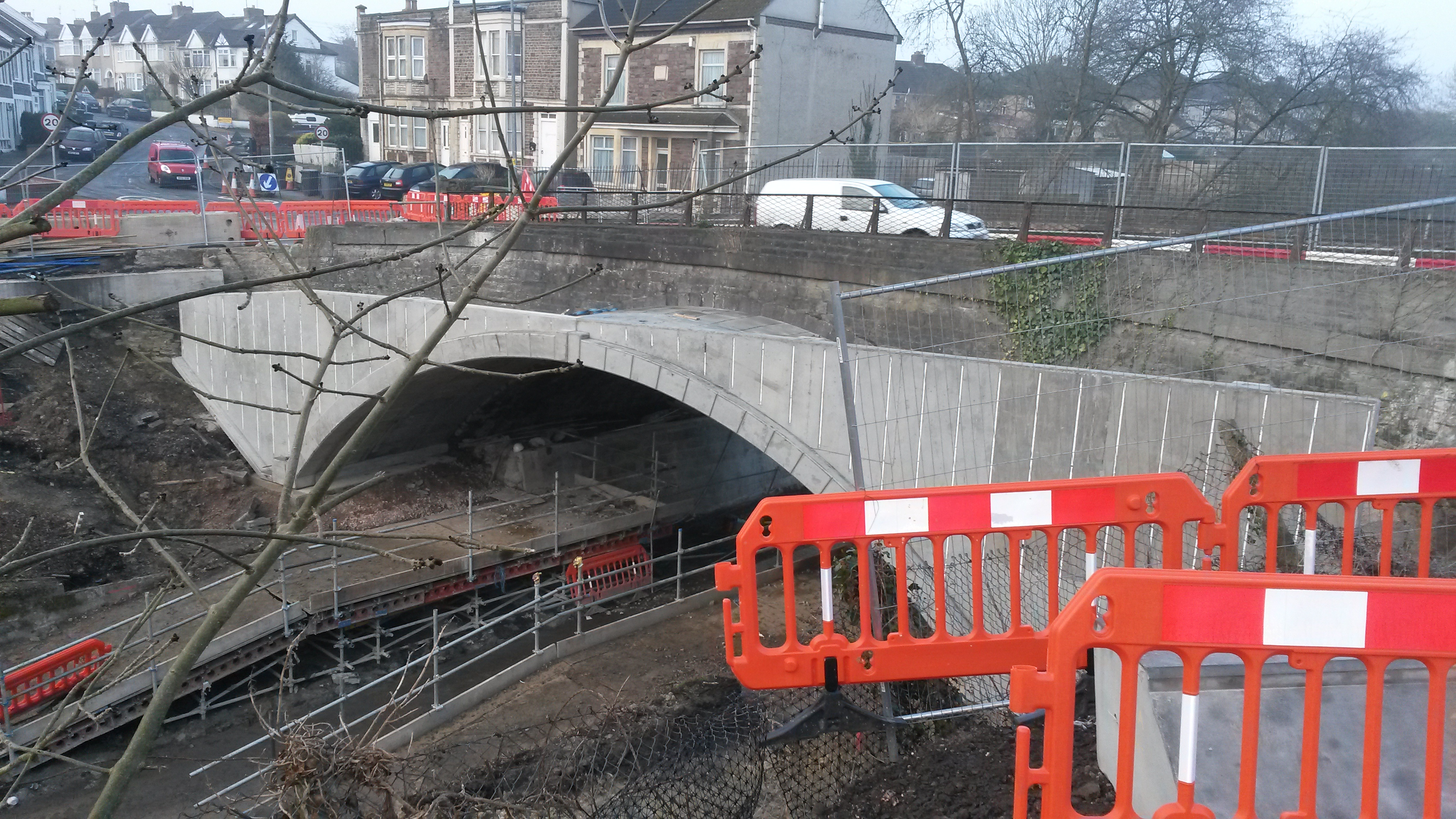 Teewell Hill bridge widening